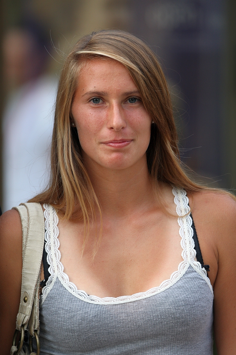 Polona Hercog - Prague 2009